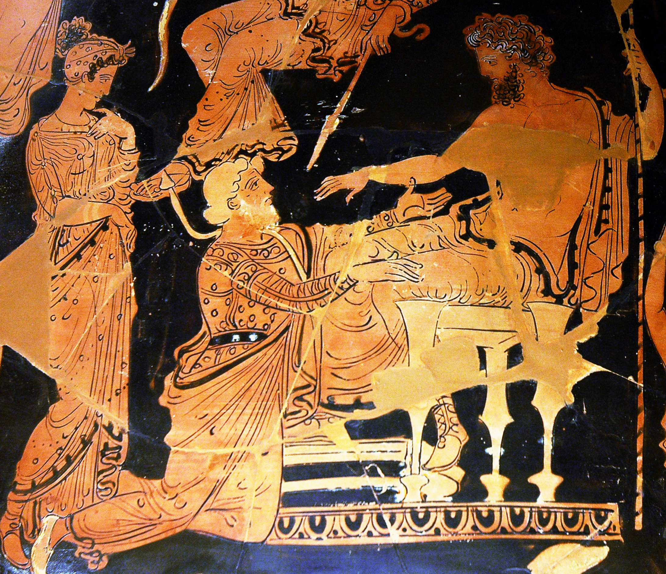 Chryses attempting to ransom his daughter Chryseis from Agamemnon. Side A of an Apulian red-figure volute-crater, ca. 360 BC–350 BCE, by the Painter of Athens 1714. Found in Taranto, now in the Louvre. The original photograph was taken and released to public domain by Jastrow in 2006. This version of the image has been cropped to focus on the three main figures, and edited to reduce glare and improve colors